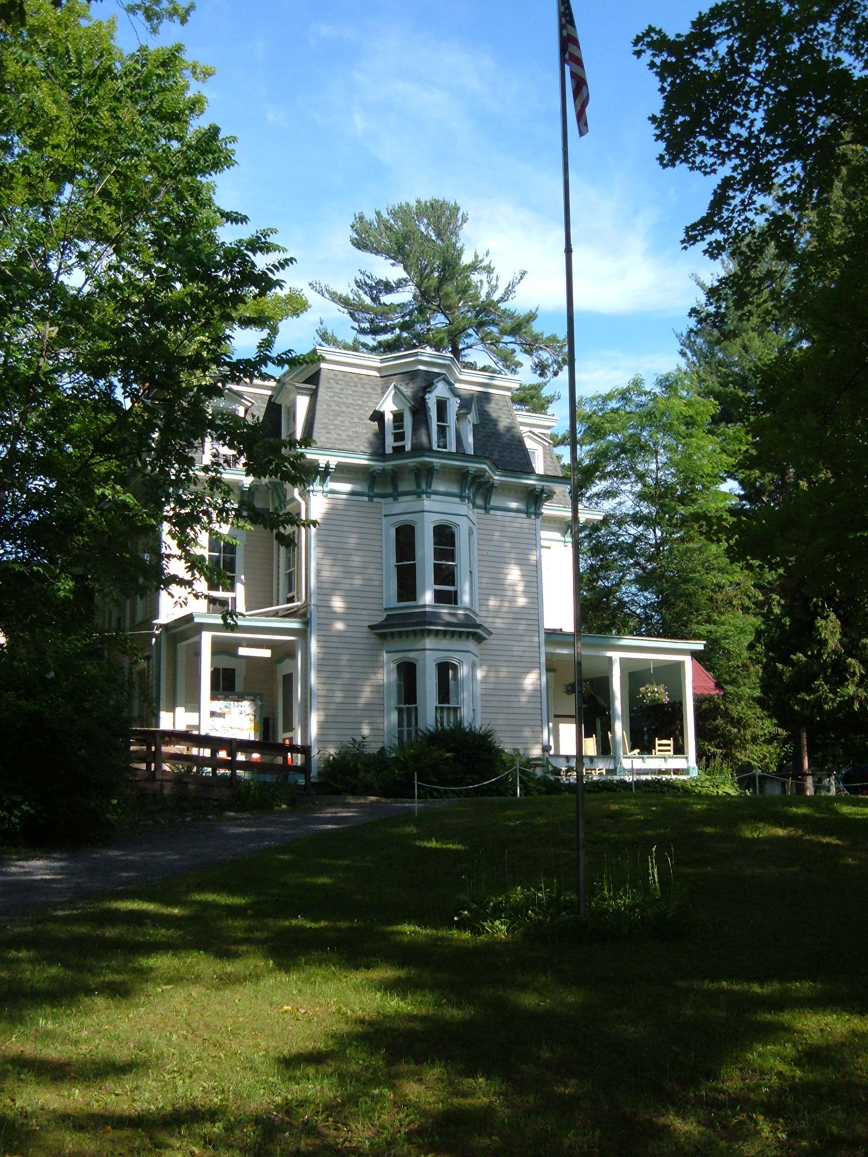 taken by 4 the Love of History Fuller House--4 the Love of History 01:08, 6 July 2006 (UTC)